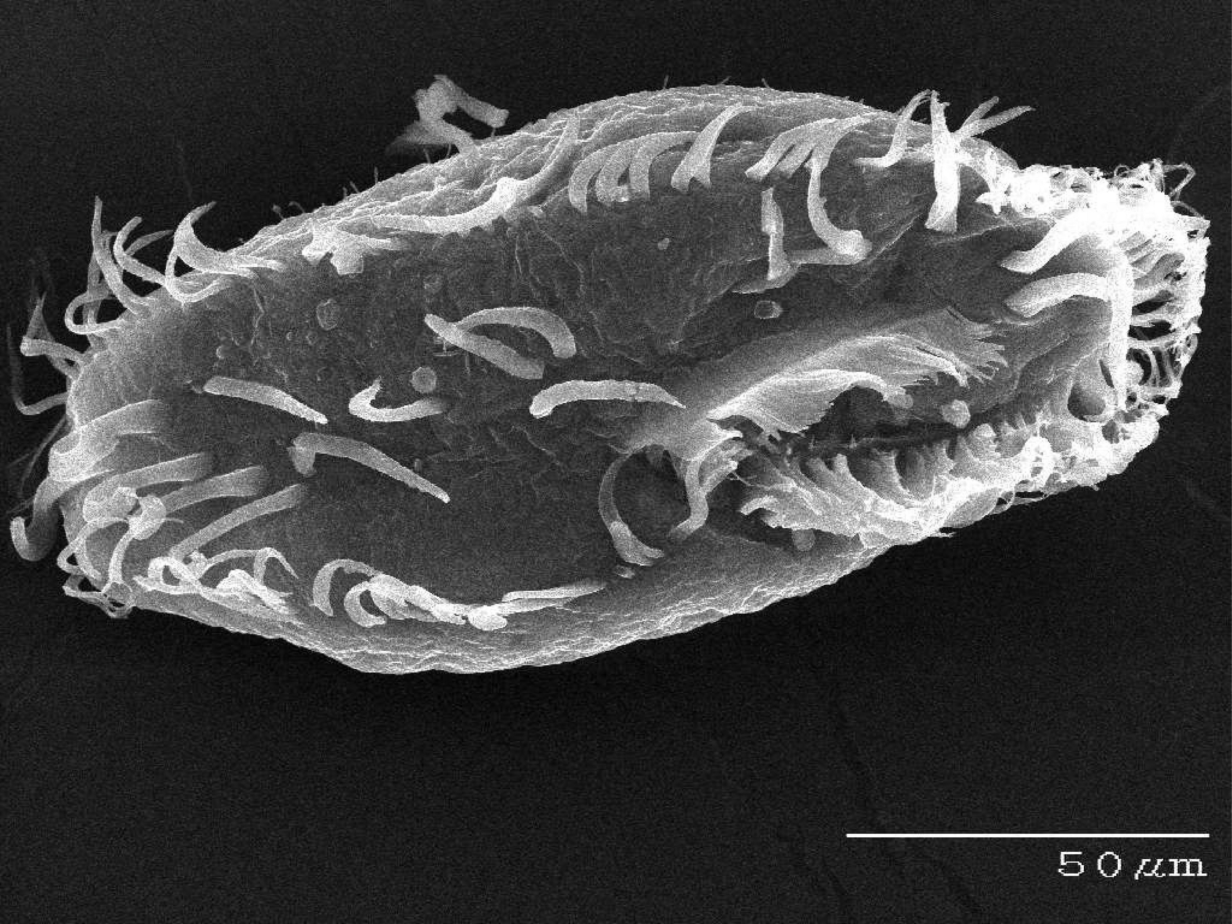 Scanning electron microscope view of Oxytricha trifallax